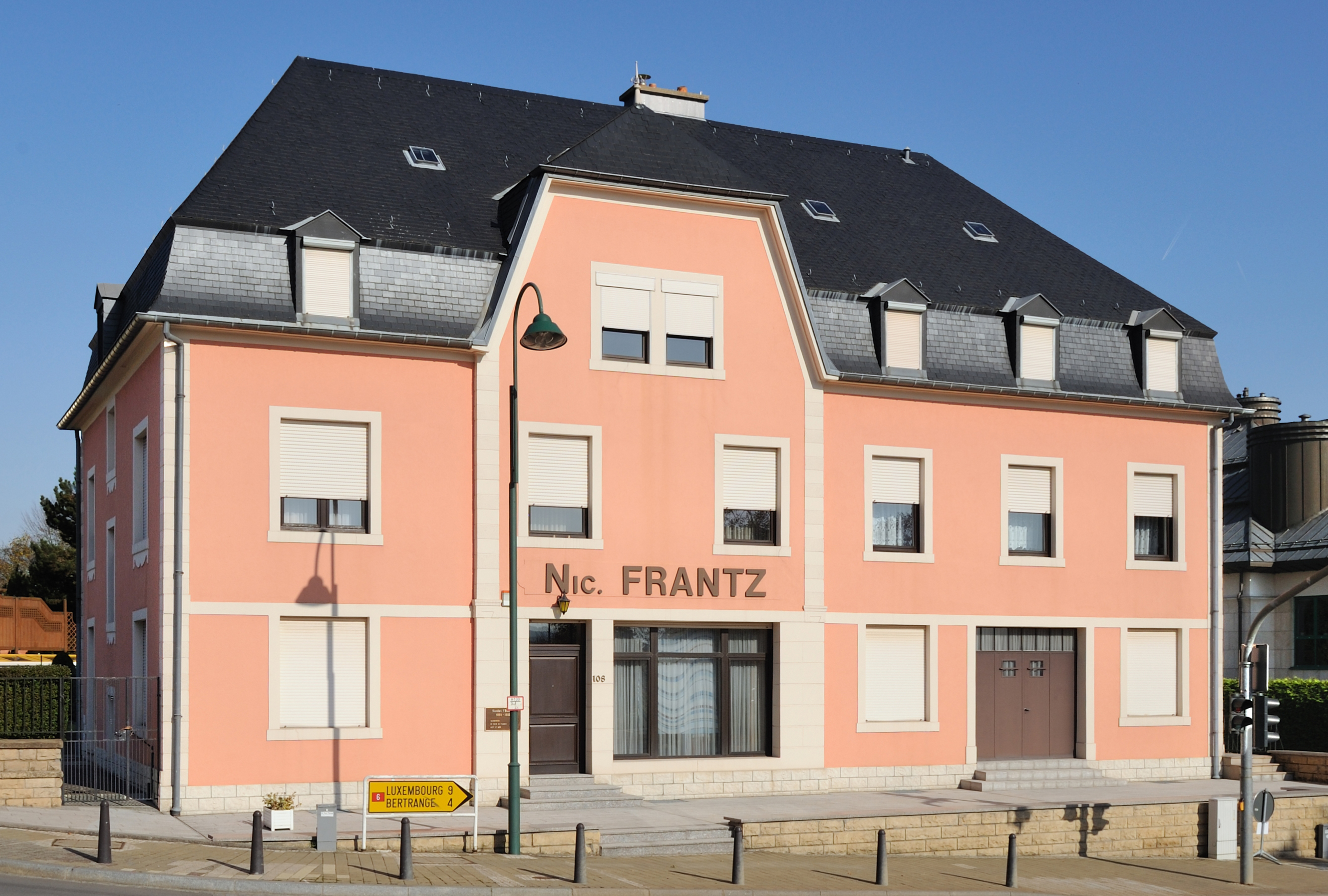 Luxembourg, Mamer: House of Nicolas Frantz (1899-1985), winner in 1927 and 1928 of the Tour de France.